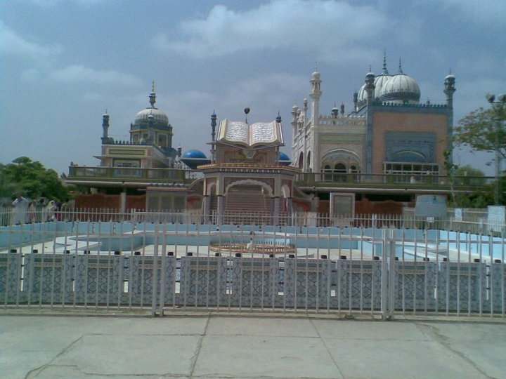 Bhong Mosque This is a photo of a monument in Pakistan identified as the PB-P-194